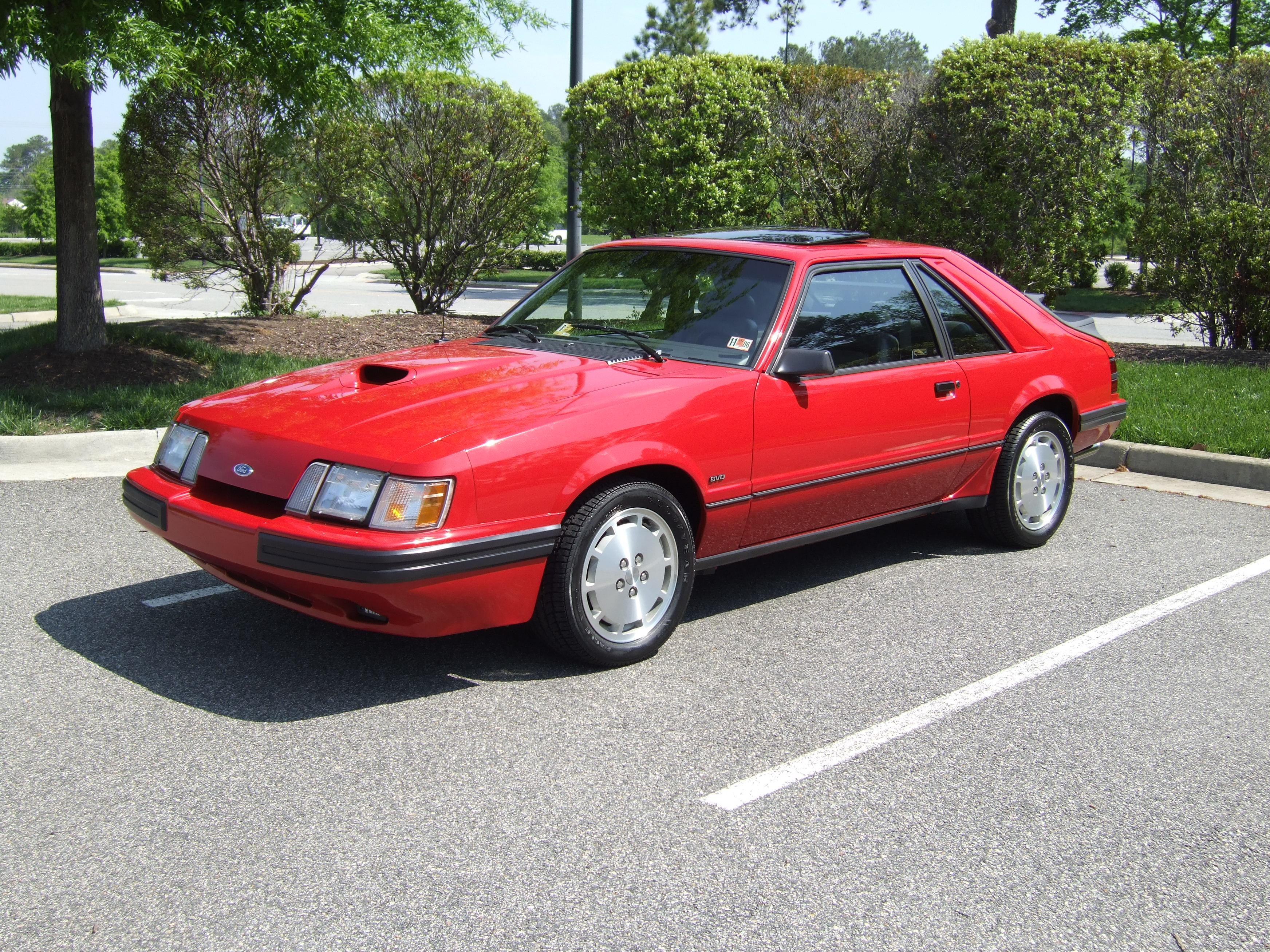 My 86 Mustang SVO with 1,500 Miles